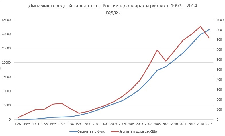 Russia's wages in roubels and USD